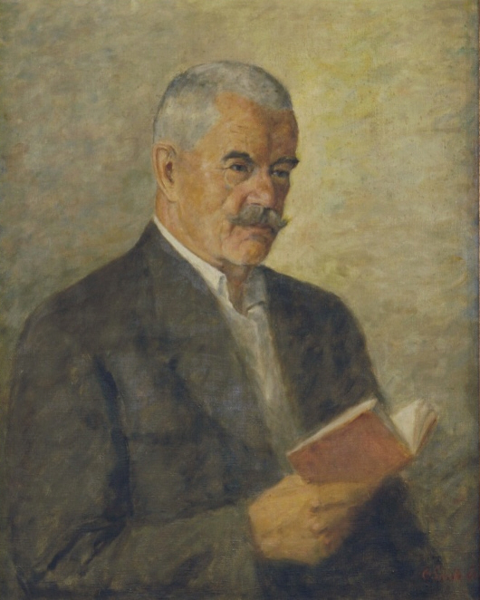 Silesian museum - PB 3